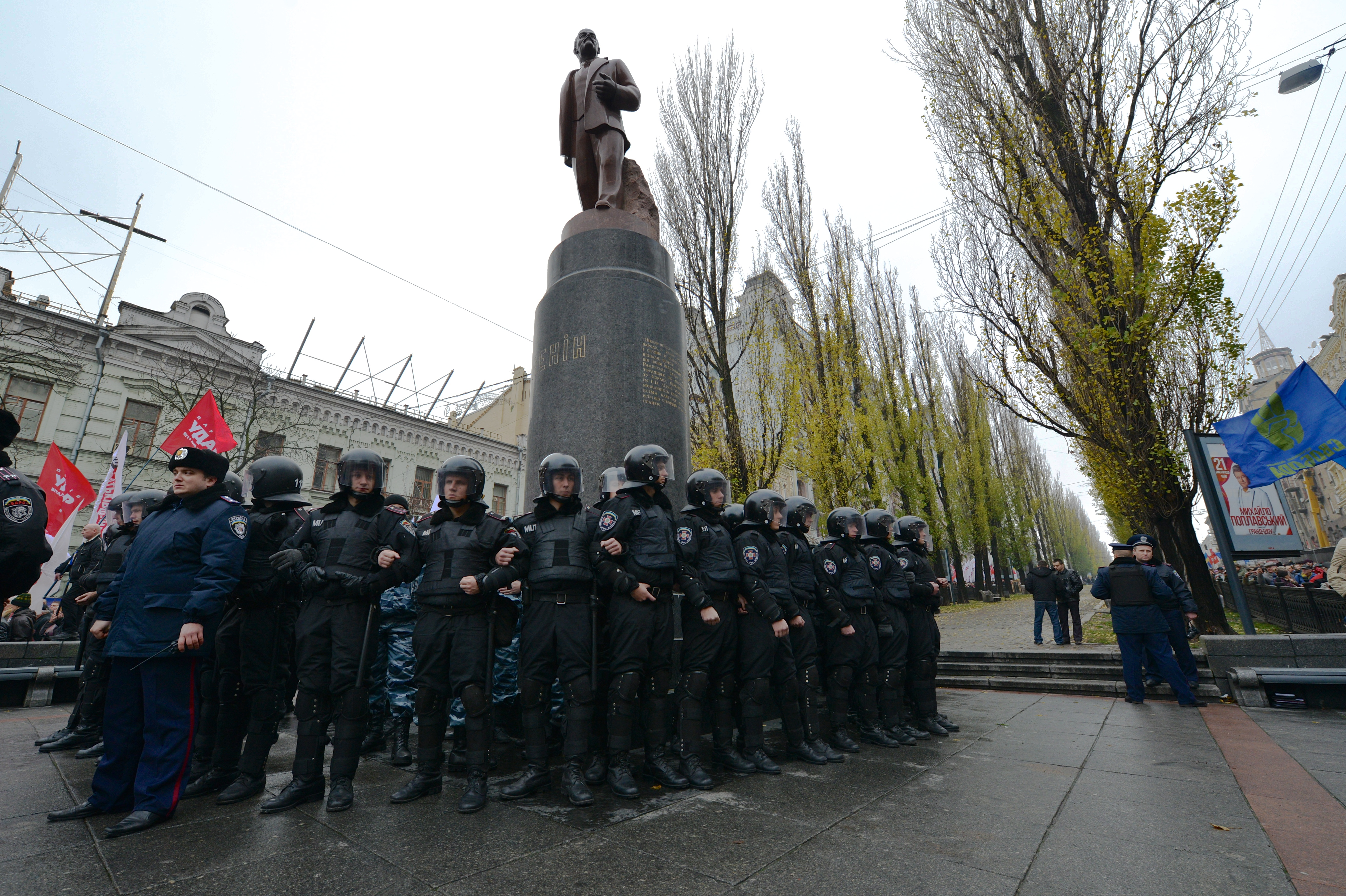 A massive pro-EU rally in Kiev on 24th of November, attended by over 100k